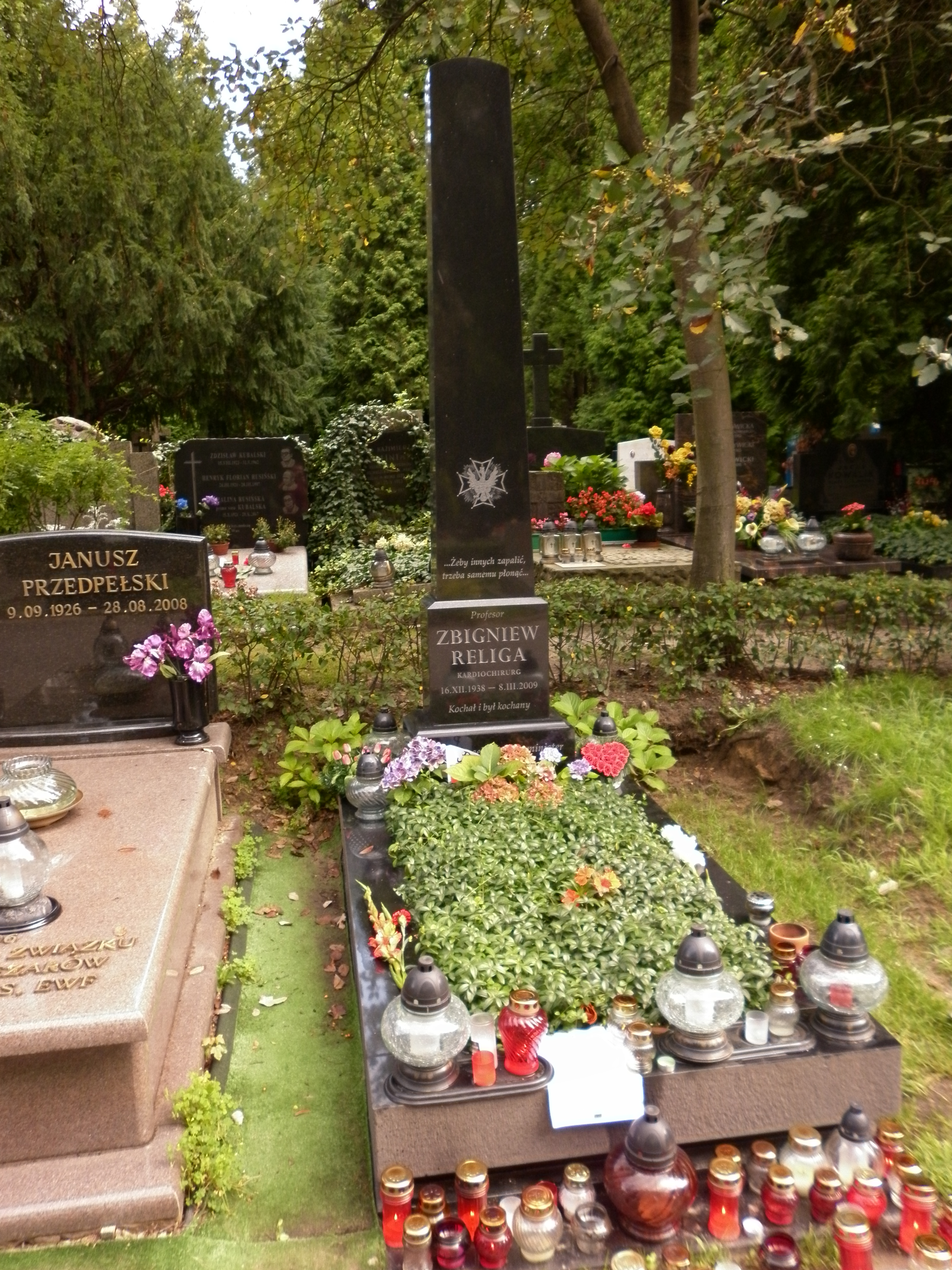 Zbigniew Religa tomb in military powązki